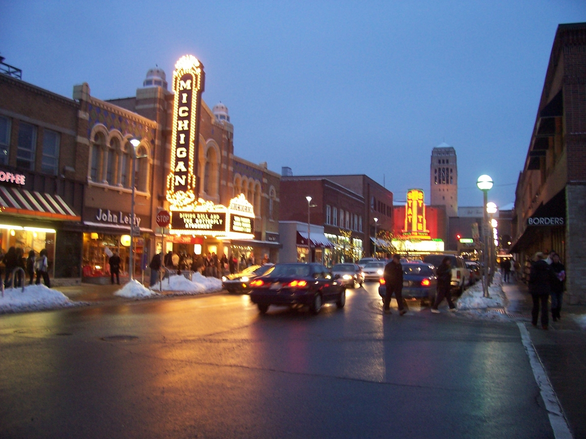 Ann Arbor, Michigan. E. Liberty St.